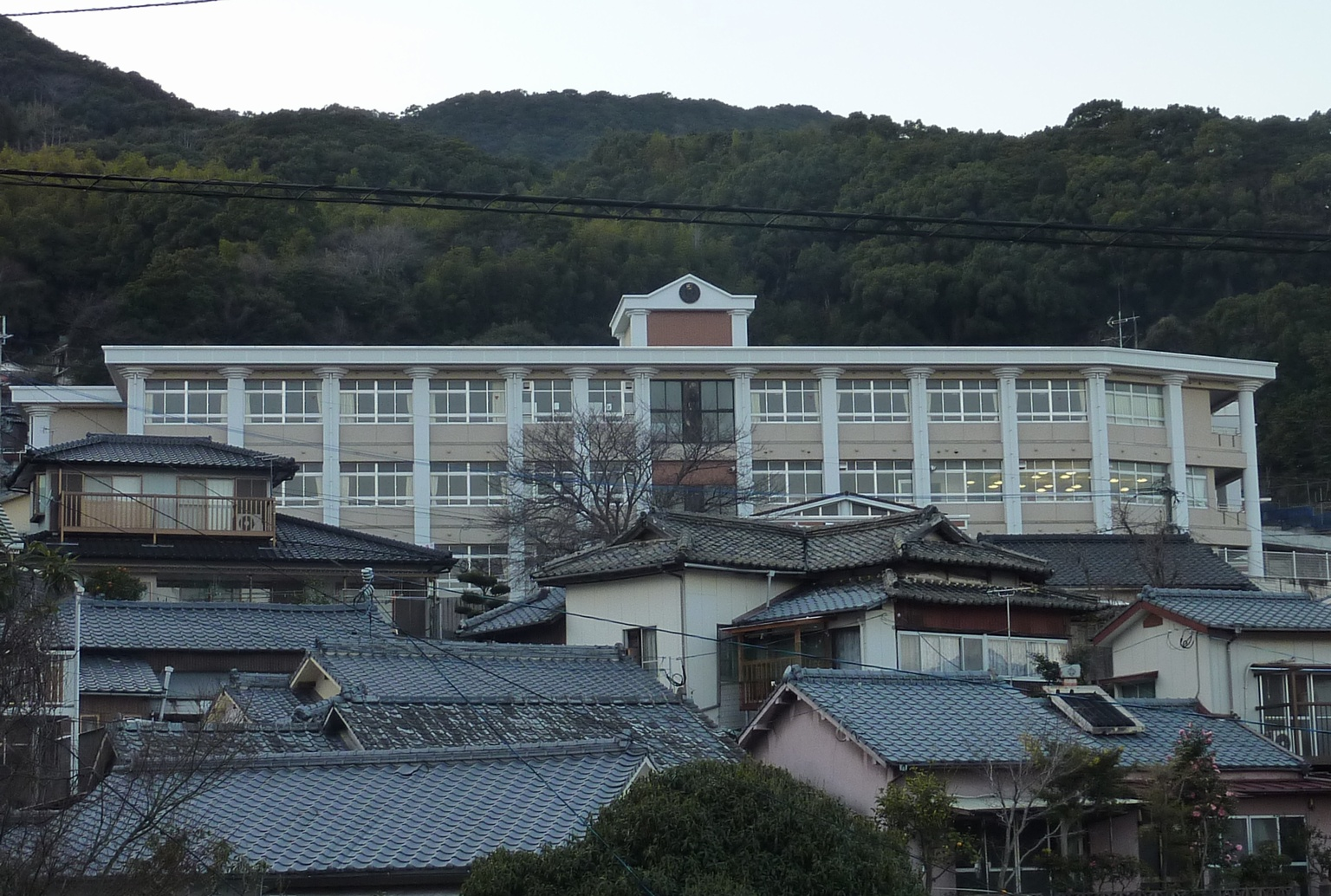 Okubo Elementary School (Sasebo City, Nagasaki Prefecture, Japan)